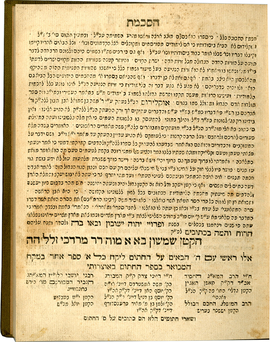 1780 Hague edition of Sefer Oklidus (translated by Baruch Schick of Shklov). Approbation by Shimshon ben Mordechai, Rabbi of Slonim.